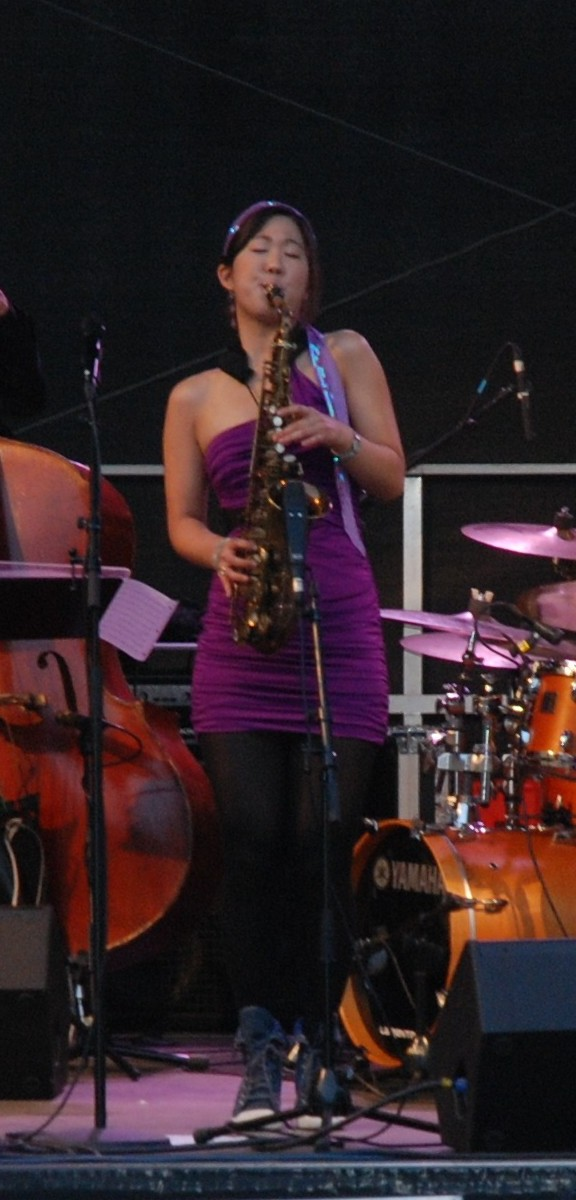 US Jazz Musician Grace Kelly at Stockholm Jazz Festival 2010